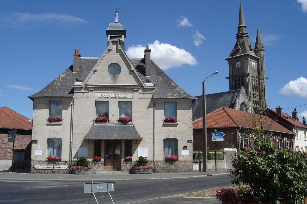 Town hall and church of Neuville-Saint-Vaast (France). Photo taken by myself.